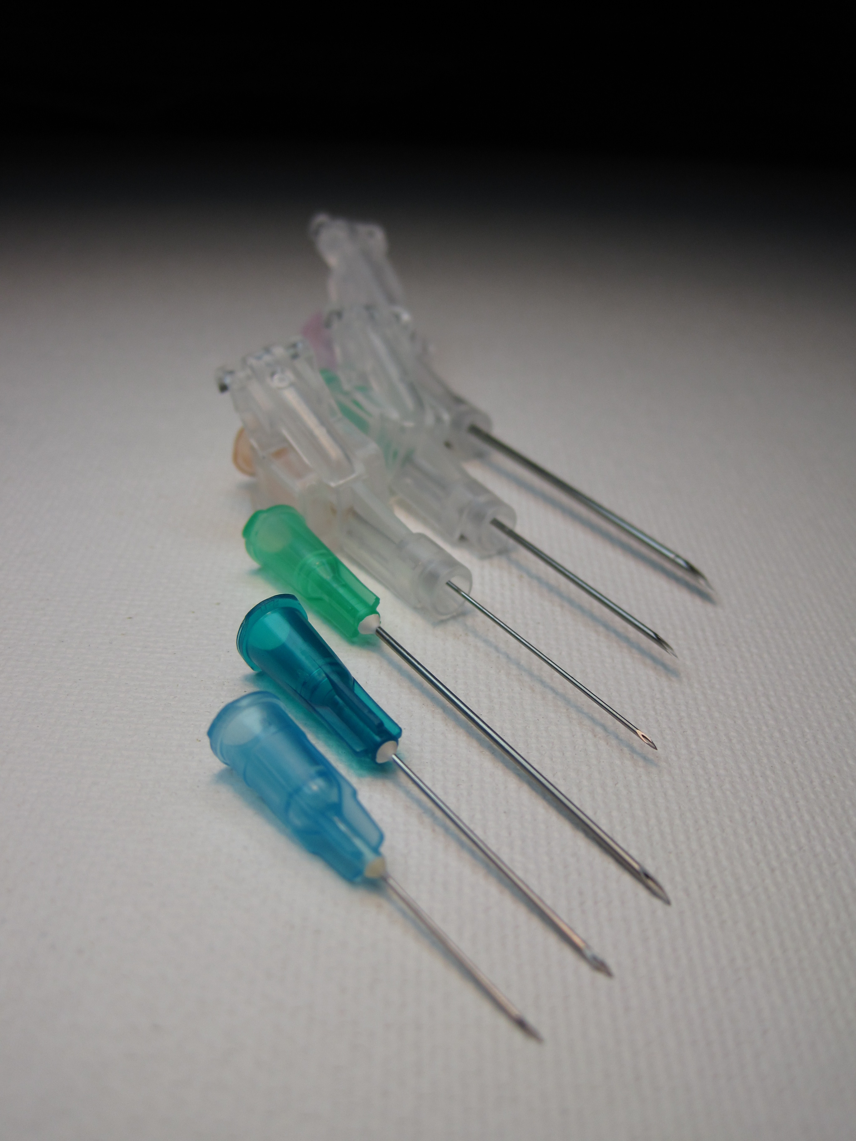 Several different hypodermic needles, of varied diameter and design.